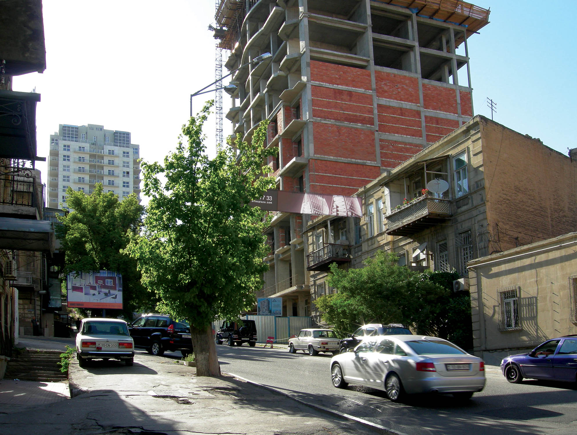 Last apartment - 20 Sardarov Street, Baku, Azerbaijan - where Yusif Vazir Chamanzaminli and his family resided in 1937 before he was arrested on false charges of "counter-revolutionary activity" and sentenced to Stalin's GULAG where he died. Chamanzaminli's apartment was on the ground floor in the right hand corner (here, located behind the small tree on the right side of the photo).